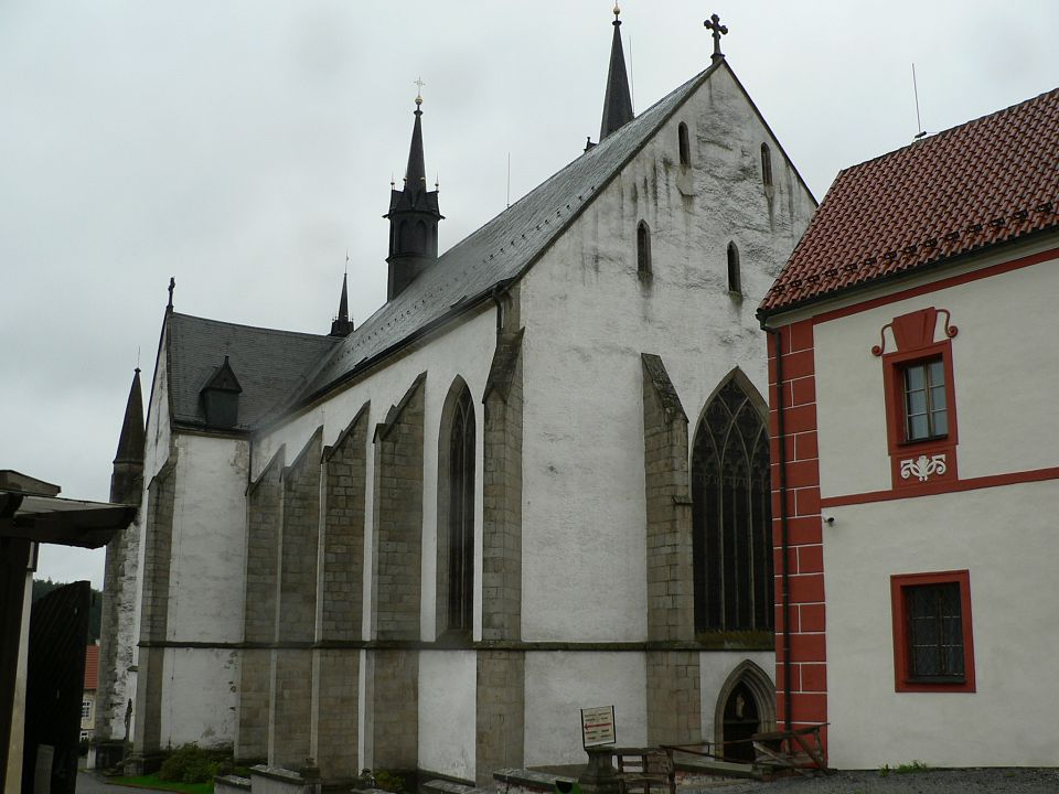 Cistercians monastery, Vyšší Brod, Czech Republic. Church of the Assumption.